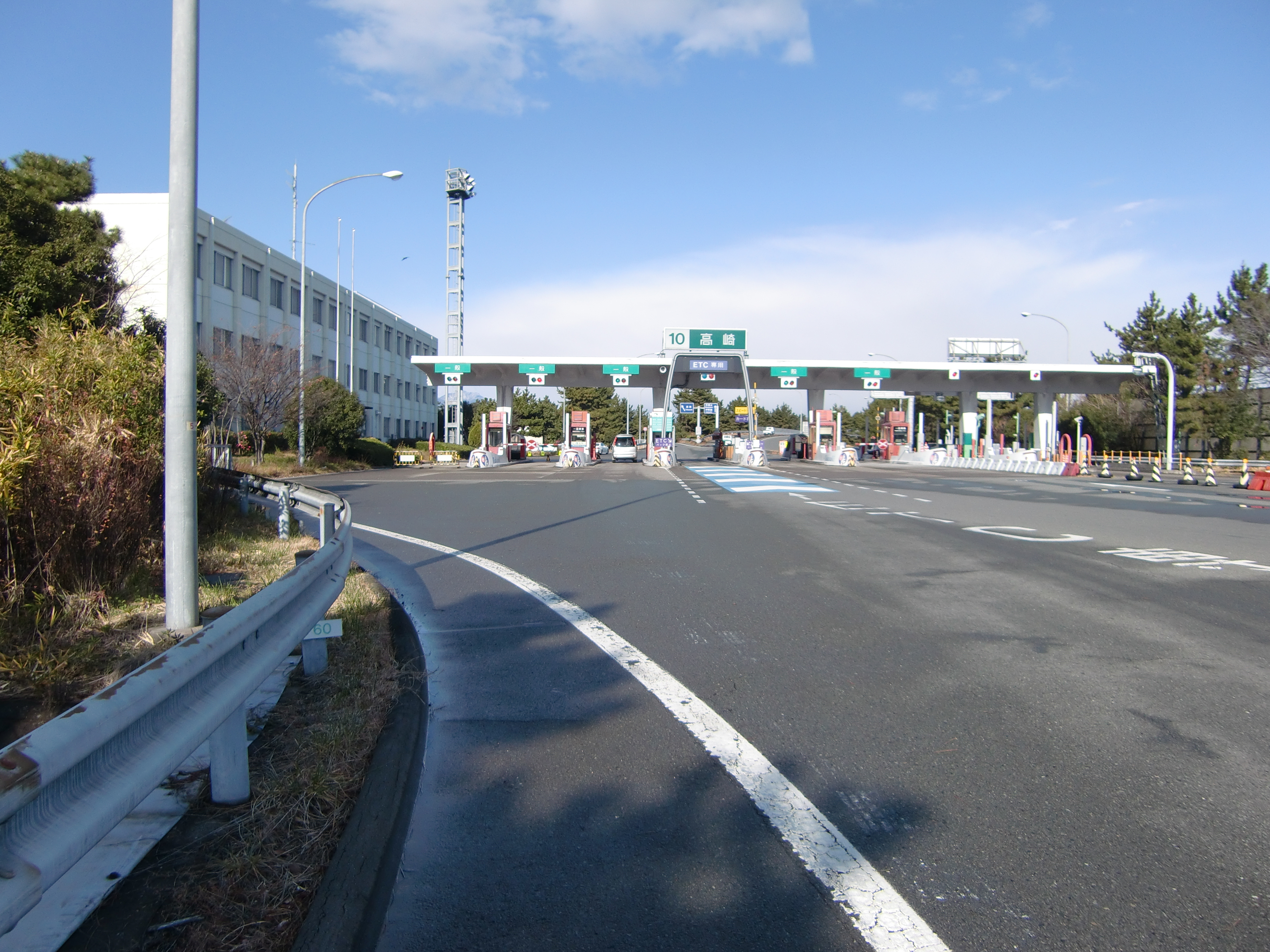 Takasaki Inter Change